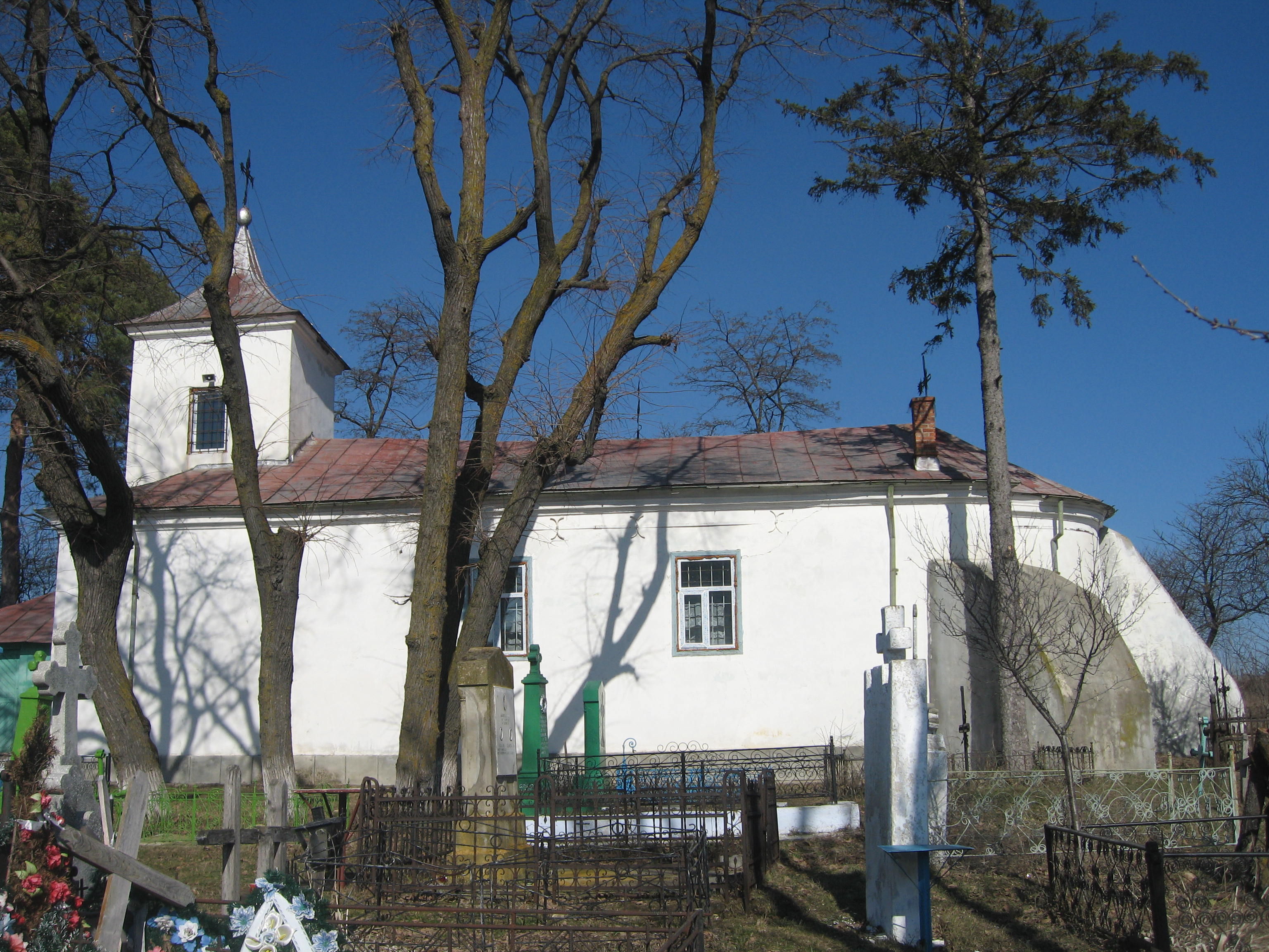 Biserica Sf. Gheorghe din Draguseni